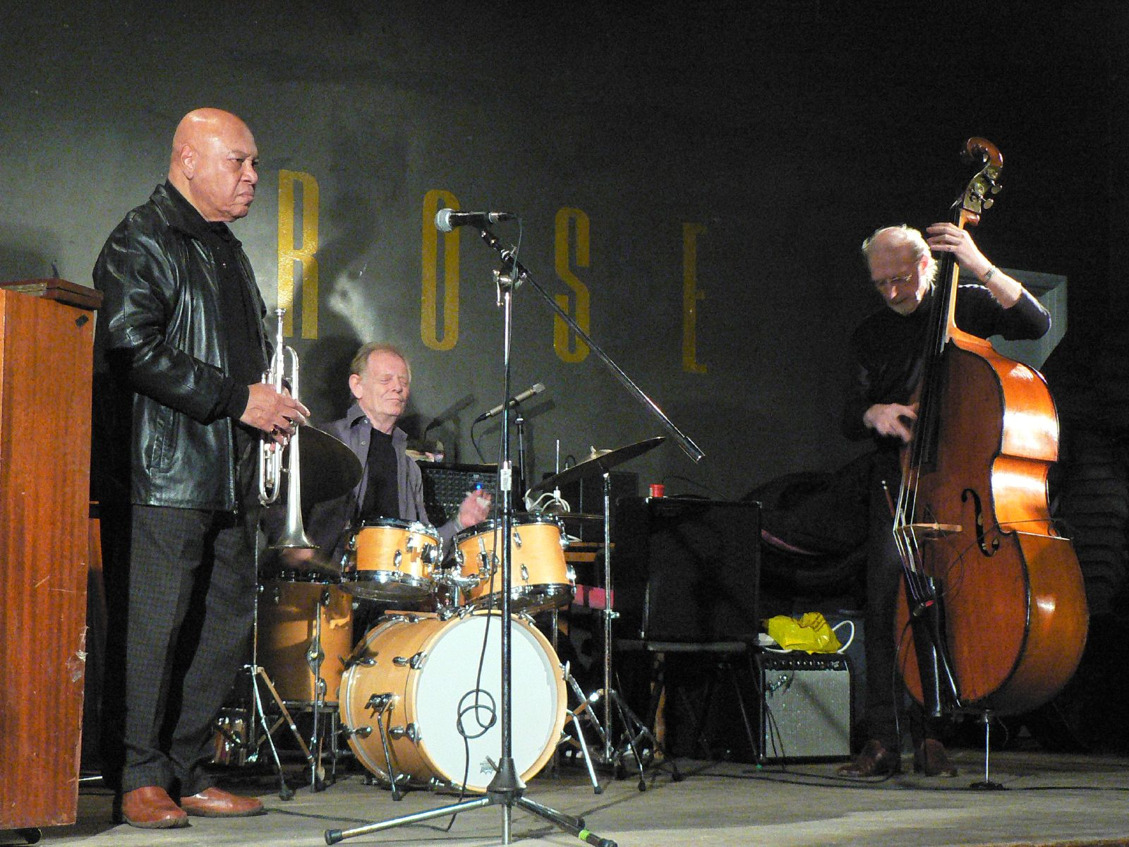 Paul Rutherford Memorial Concert. Tags at flickr: London Improvisors Red Rose Harry Beckett Nick Stevens Tony Marsh Jazz Improv